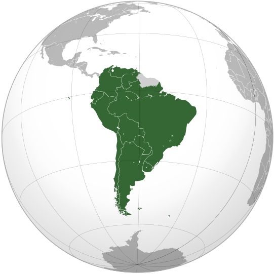 This image shows the members of South America Tennis Confederation